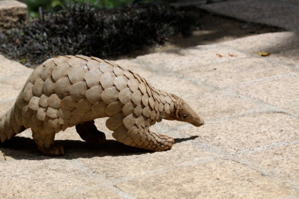 Indian Pangolin (Manis crassicaudata) in Kandy, Sri Lanka